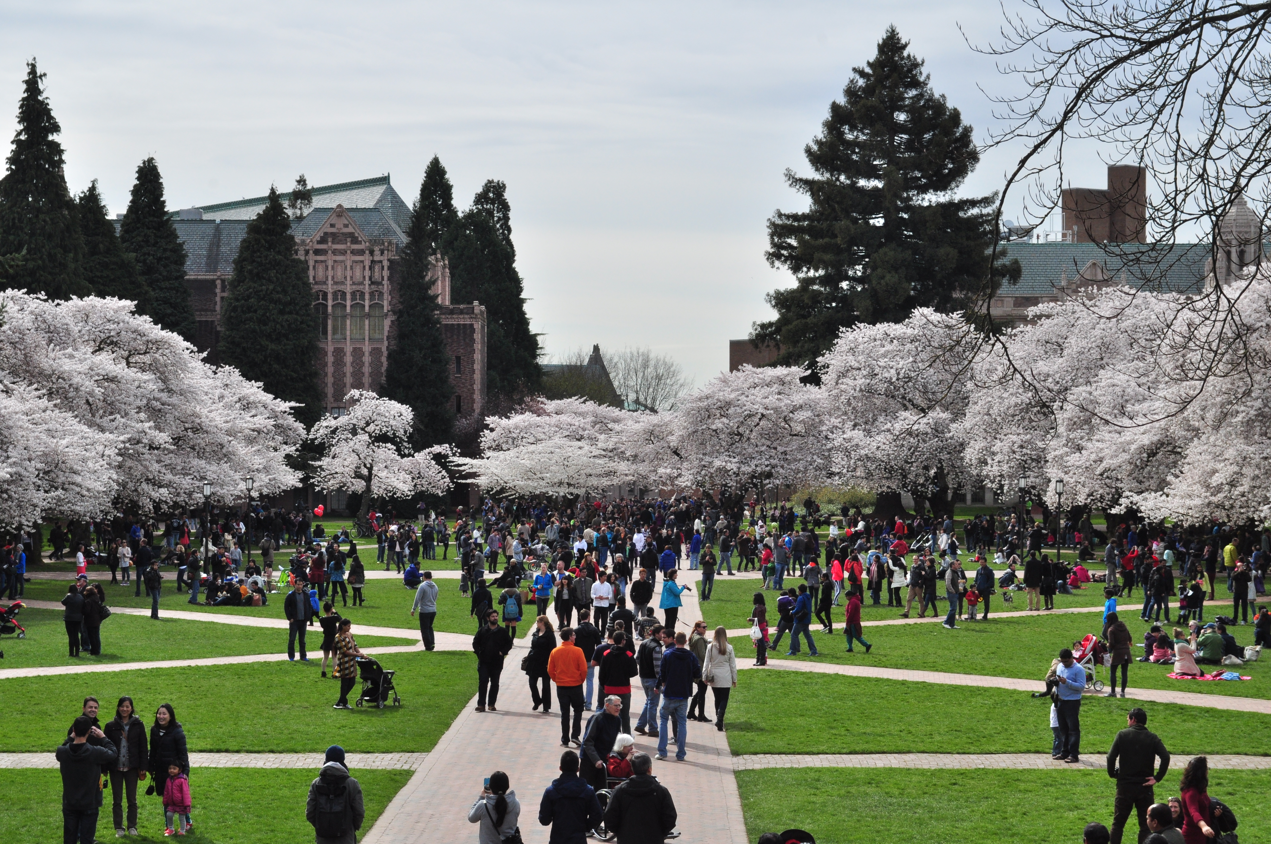 University of Washington (Seattle, Washington): the Quad on a Saturday at Cherry Blossom time.